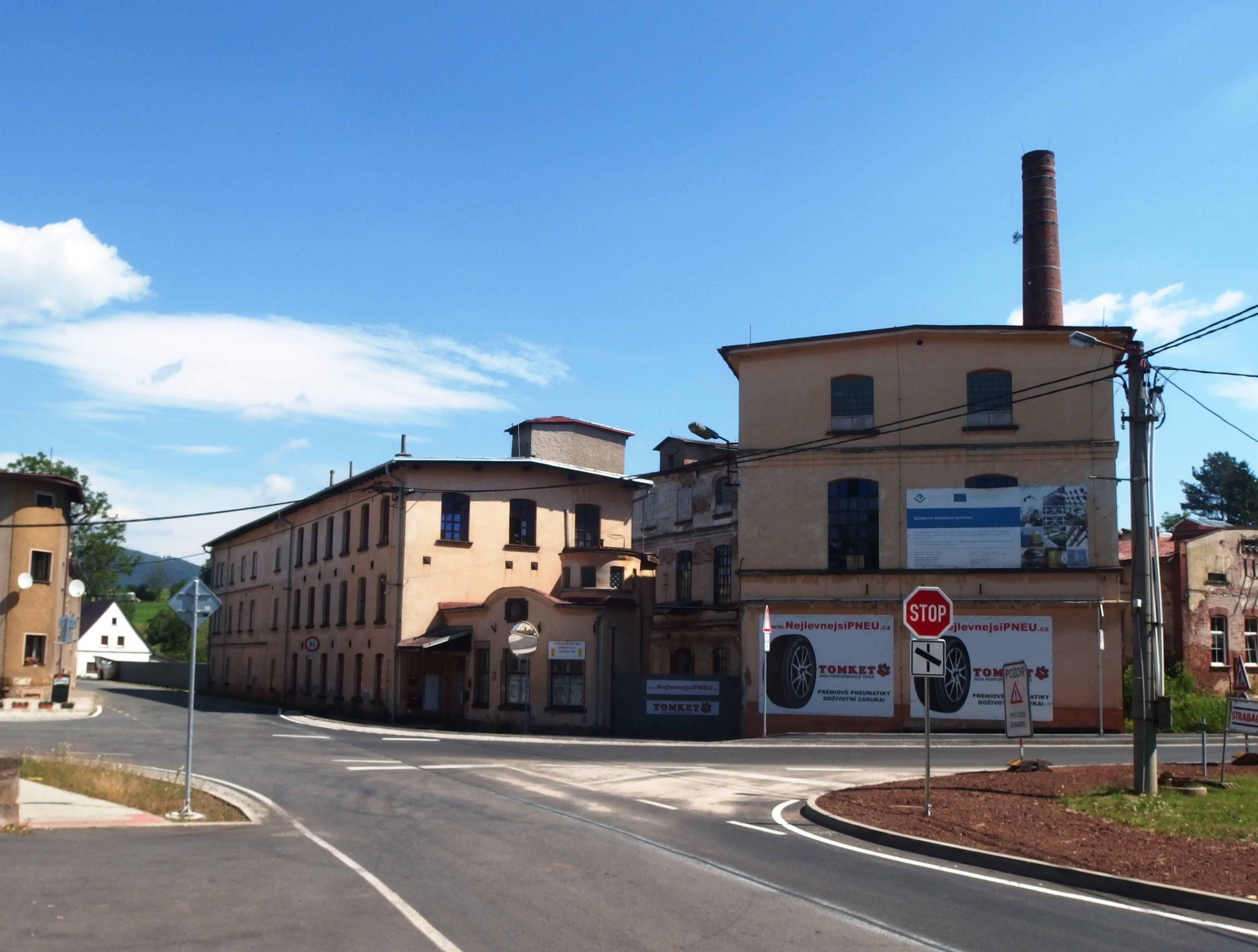 Jetřichov, Náchod District, Czechia.